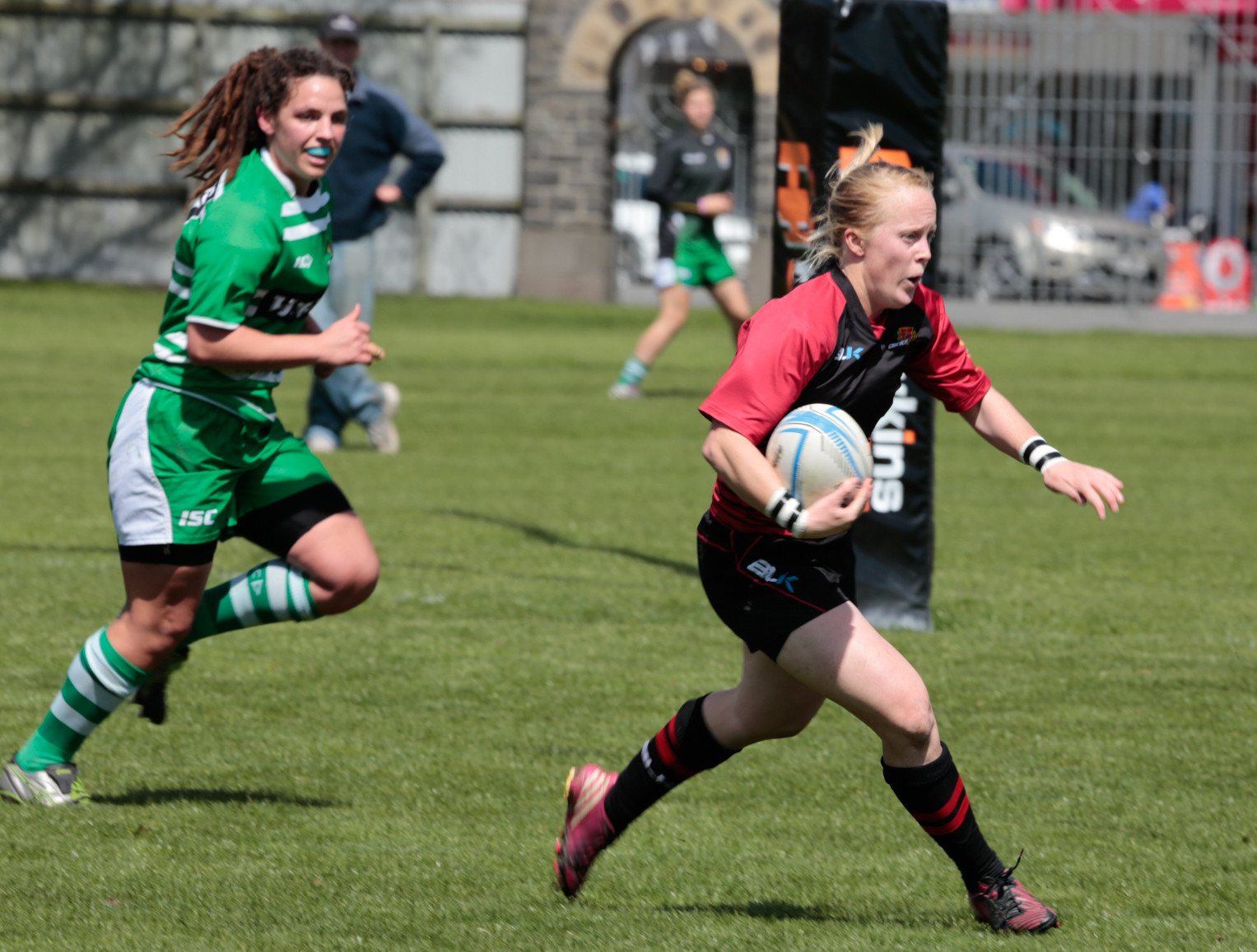 Kendra Cocksedge Women's NPC. Canterbury vs Manawatu 12 Oct 2013 at Rugby Park, Christchurch NZ. Canterbury won 36-18